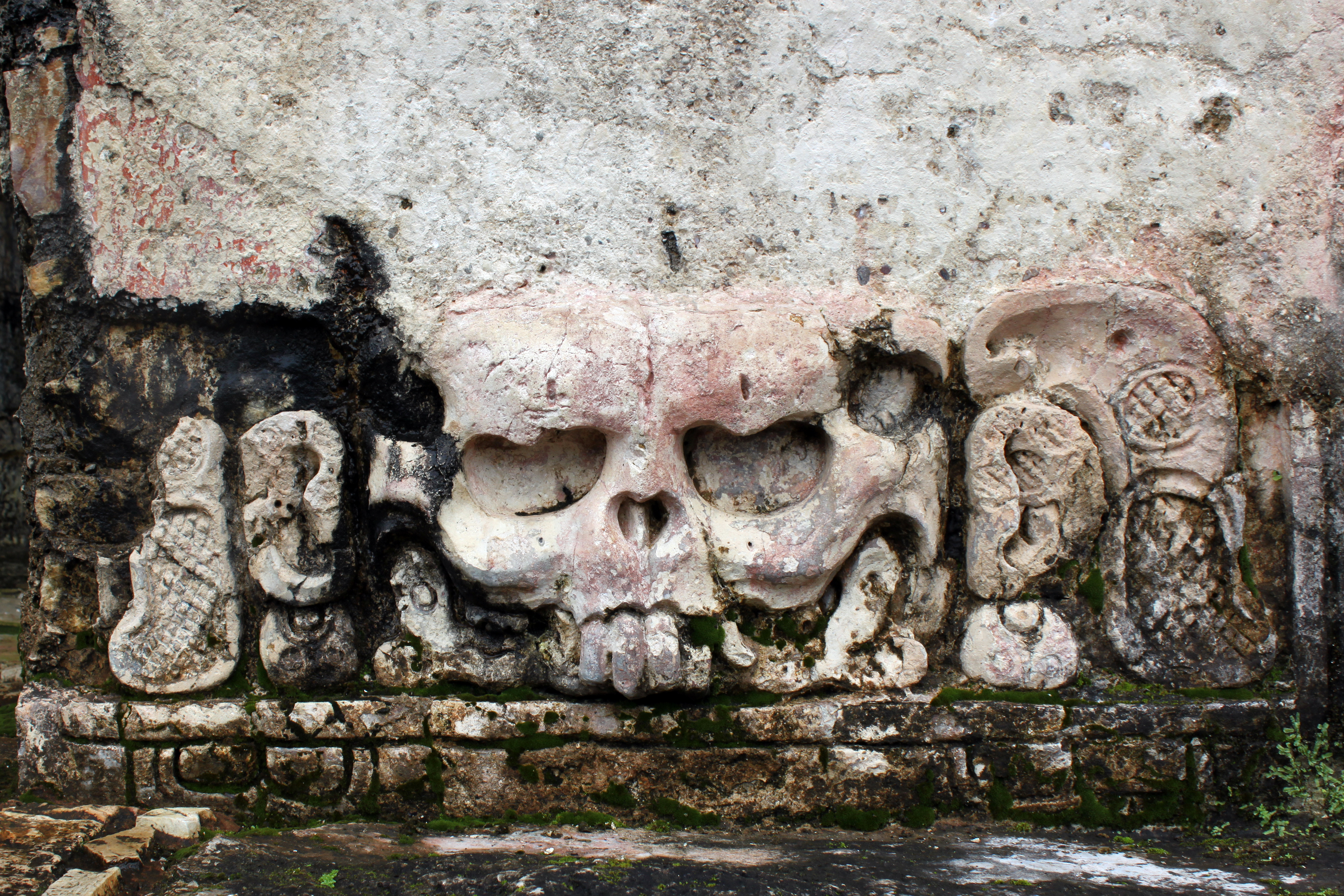 Temple of the Skull in Palenque (Temple XII), Chiapas, Mexico